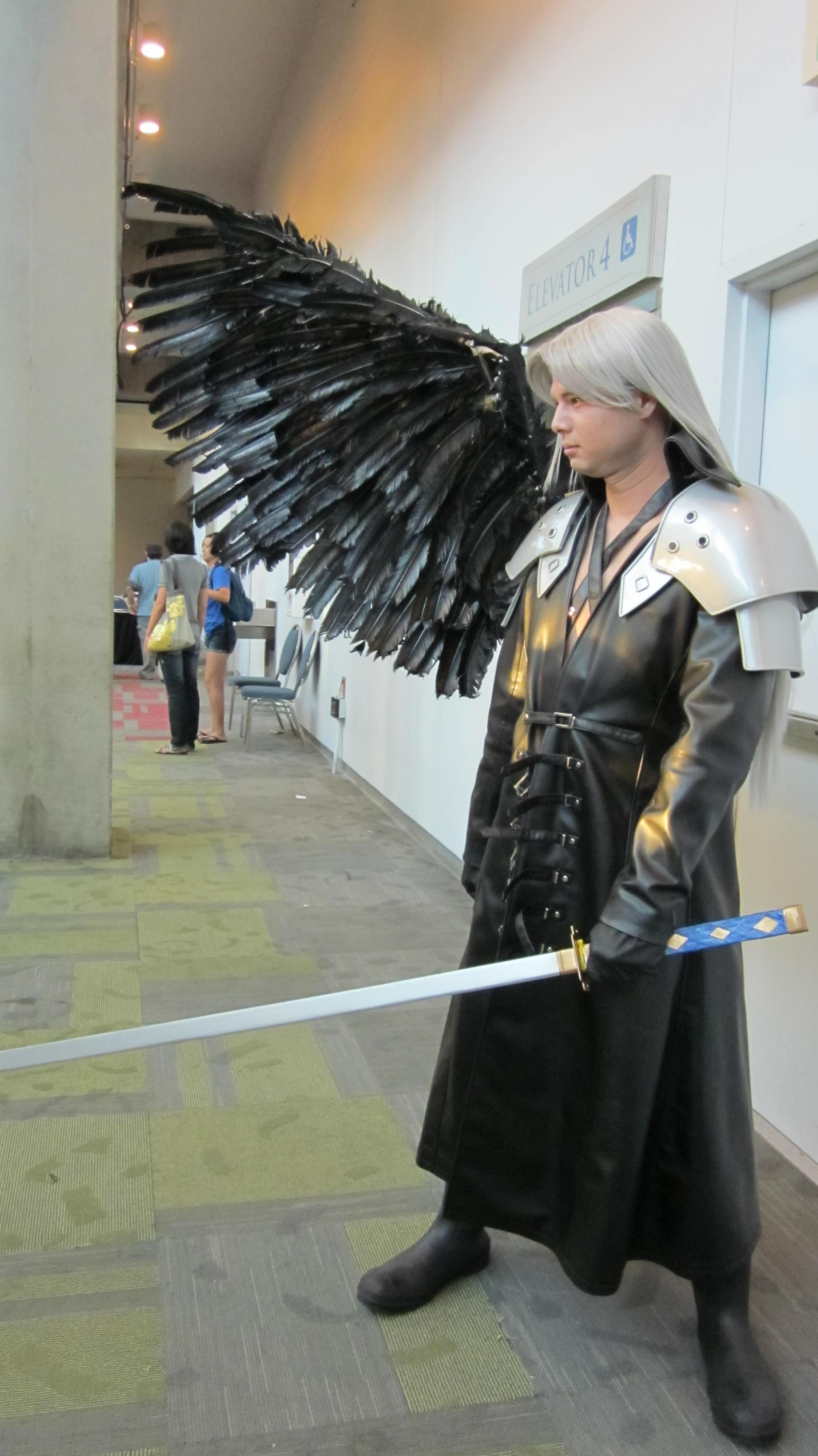 A cosplayer portraying Sephiroth from Final Fantsy VII at FanimeCon 2010 in San Jose, California.